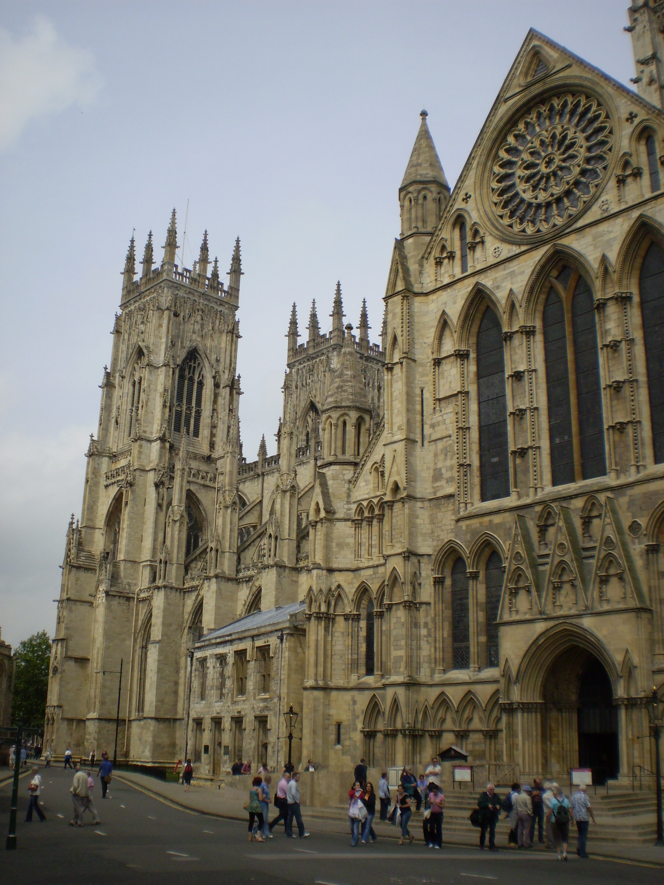 York Minster church as seen from across the street, York, England